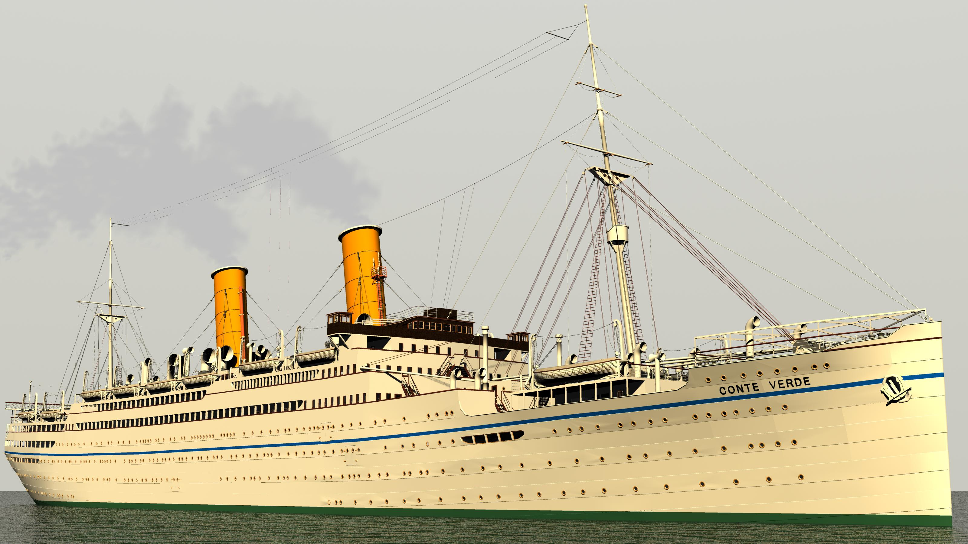 CG image of SS Conte Verde on Lloyd Triestino’s Line in 1930s